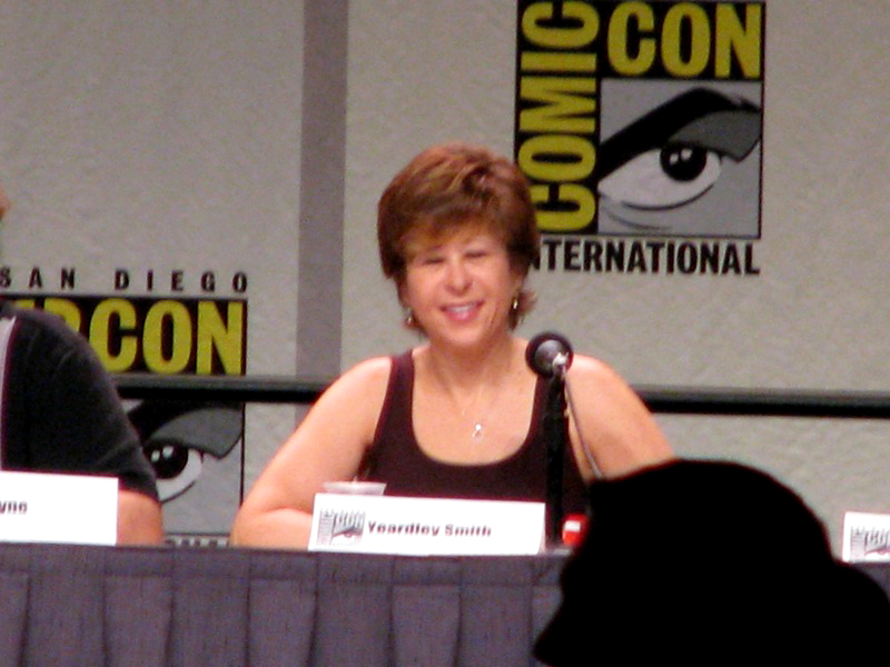 Yeardley Smith at Comic Con 2007